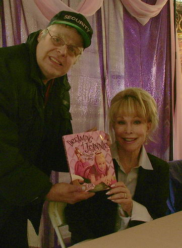 Howard Frank and Barbara Eden holding book Dreaming of Jeannie, which was co-authored by Howard Frank with Stephen Cox. Photo is part of the Howard Frank Archives of Hollywood celebrities, motion picture, and television collection at Personality Photos.